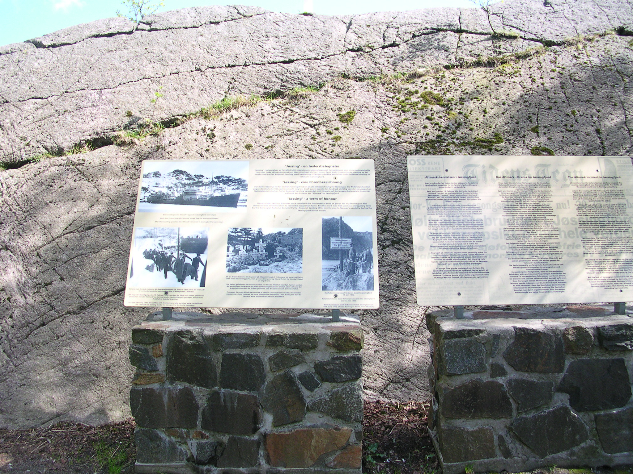 Picture of exhibition above Jøssingfjord in Norway, concerning the 1940 Altmark incident. Picture taken by the uploader, Gunleiv Hadland.